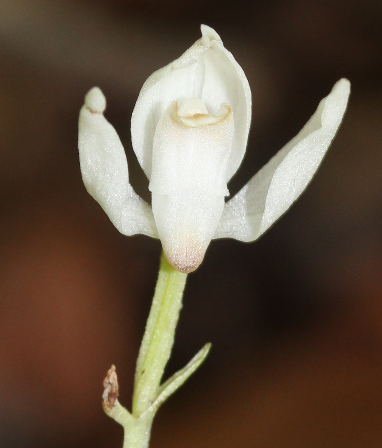 Flower of Cephalanthera longibracteata Blume , in Mount Haku, Japan.